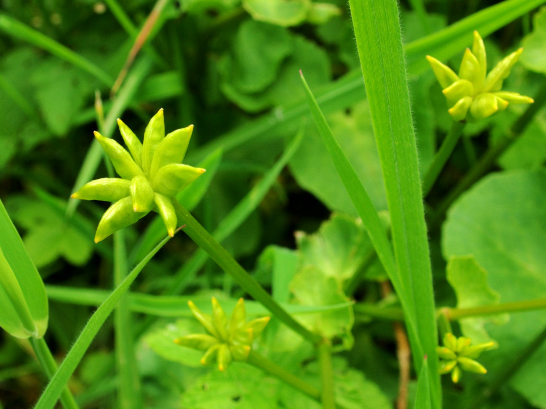 Name: Caltha palustris, fruits. Family: Ranunculaceae. Location. Münster, NRW, Germany